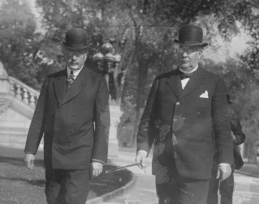 Bain News Service,, publisher. Judge Frank H. Hiscock and Judge Emory Chase [between ca. 1910 and ca. 1915] 1 negative : glass ; 5 x 7 in. or smaller. Notes: Title from unverified data provided by the Bain News Service on the negatives or caption cards. Forms part of: George Grantham Bain Collection (Library of Congress). Format: Glass negatives. Repository: Library of Congress, Prints and Photographs Division, Washington, D.C. 20540 USA, General information about the Bain Collection is available at Persistent URL: Call Number: LC-B2- 2841-6